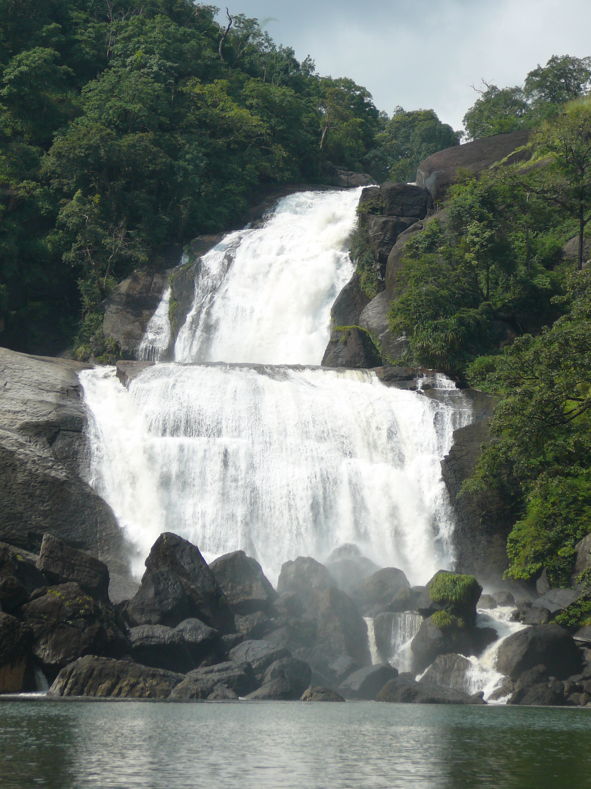 40 m Vanatheertham Waterfalls on the Thamirabarani River near Papanasam in Tamil Nadu, India